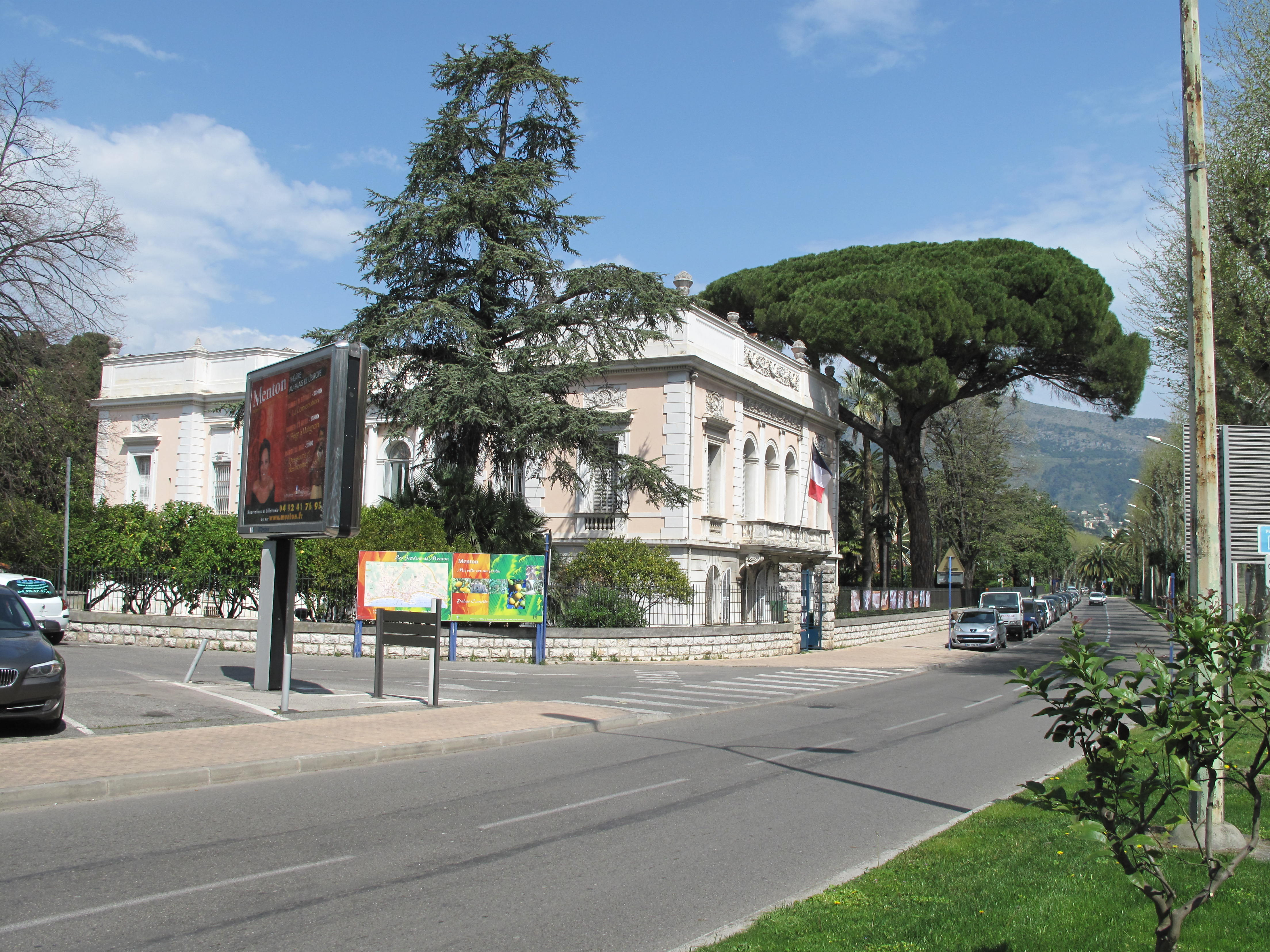 The Palais Carnolès in Menton (Alpes-Maritimes, France). Seen from South side.